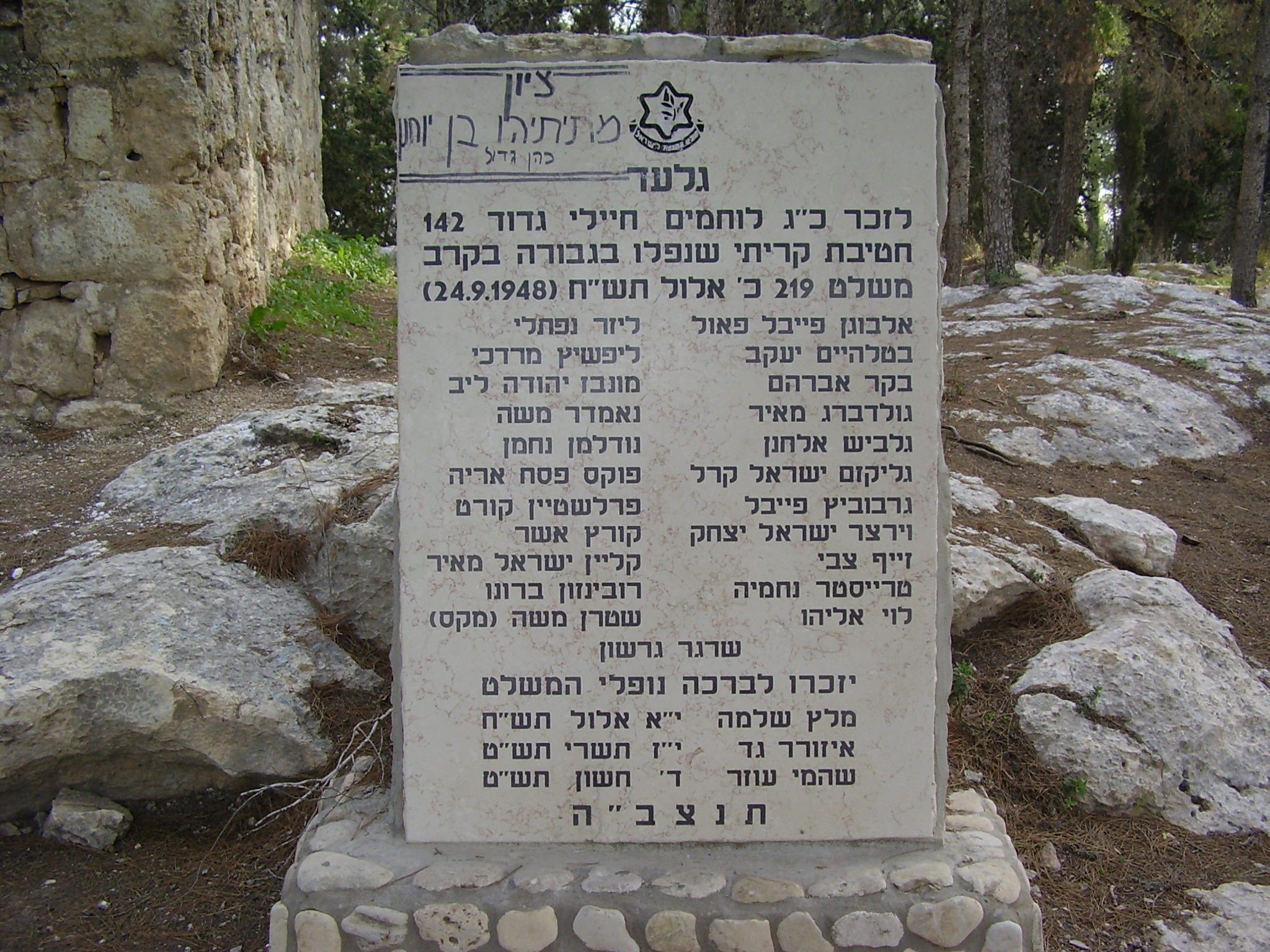 war memorial in ben-shemen forest